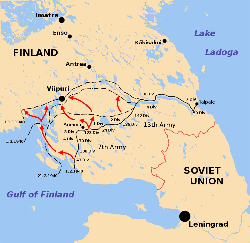 Winter War: Karelian Isthmus Red Army offensive February-March 1940